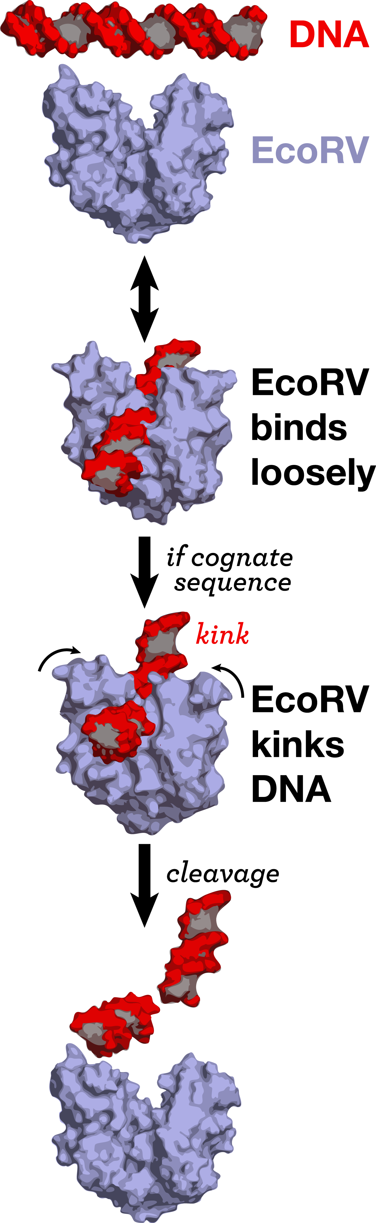 Schematic representation of the function of restriction endonuclease EcoRV. This protein loosely binds DNA and scans for its cognate sequence. Once found, EcoRV kinks the DNA in a 50° angle and cleaves at the cognate sequence.